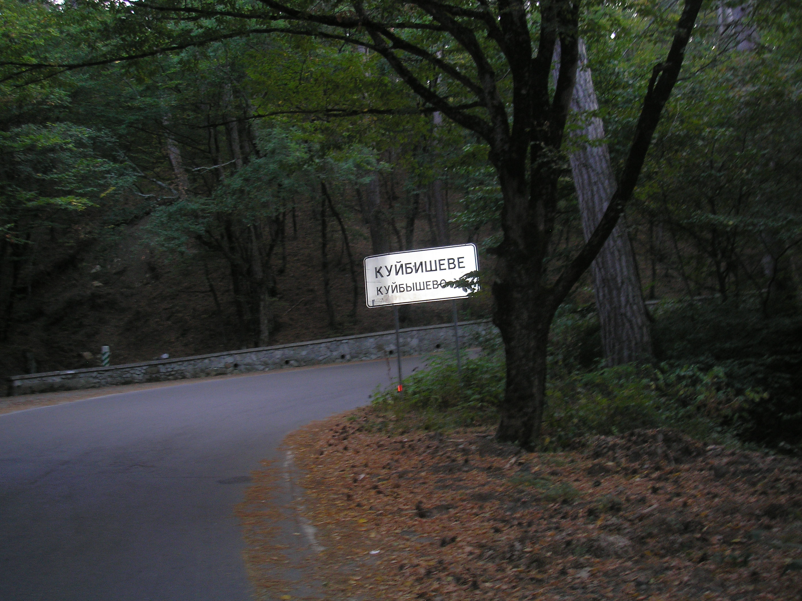 The entrance to the village Kujbyshevo, Borough of Yalta